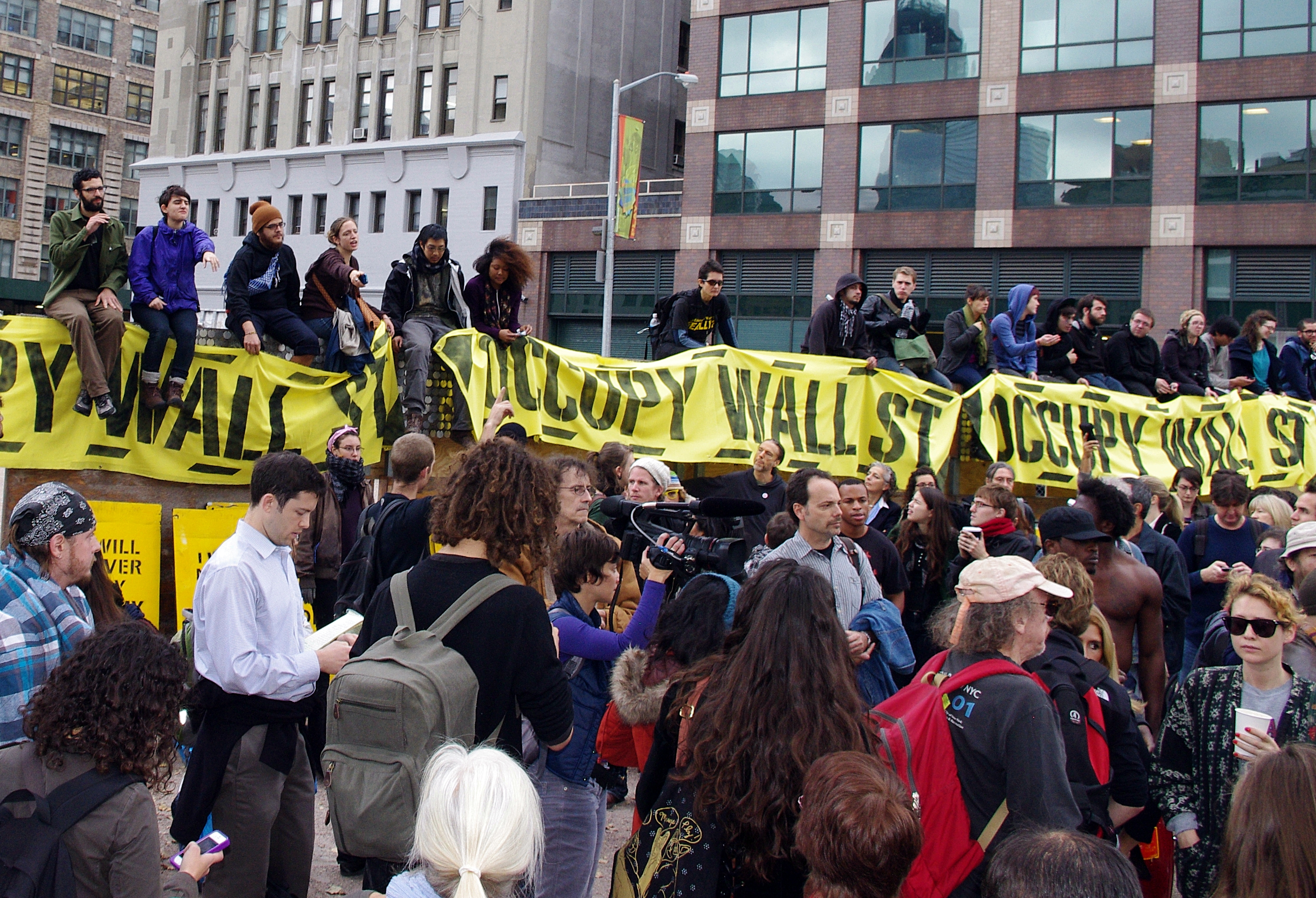 Tuesday morning the police evicted the Occupy Wall Street protesters and cleaned the park. Tensions ran high that morning - scenes from an empty Zuccotti around 9:15 a.m.; the regrouping of the protesters at a lot on Canal & 6th Street around 10:15 a.m.; and then their return to Zuccotti to confront the police around 11:00 a.m.